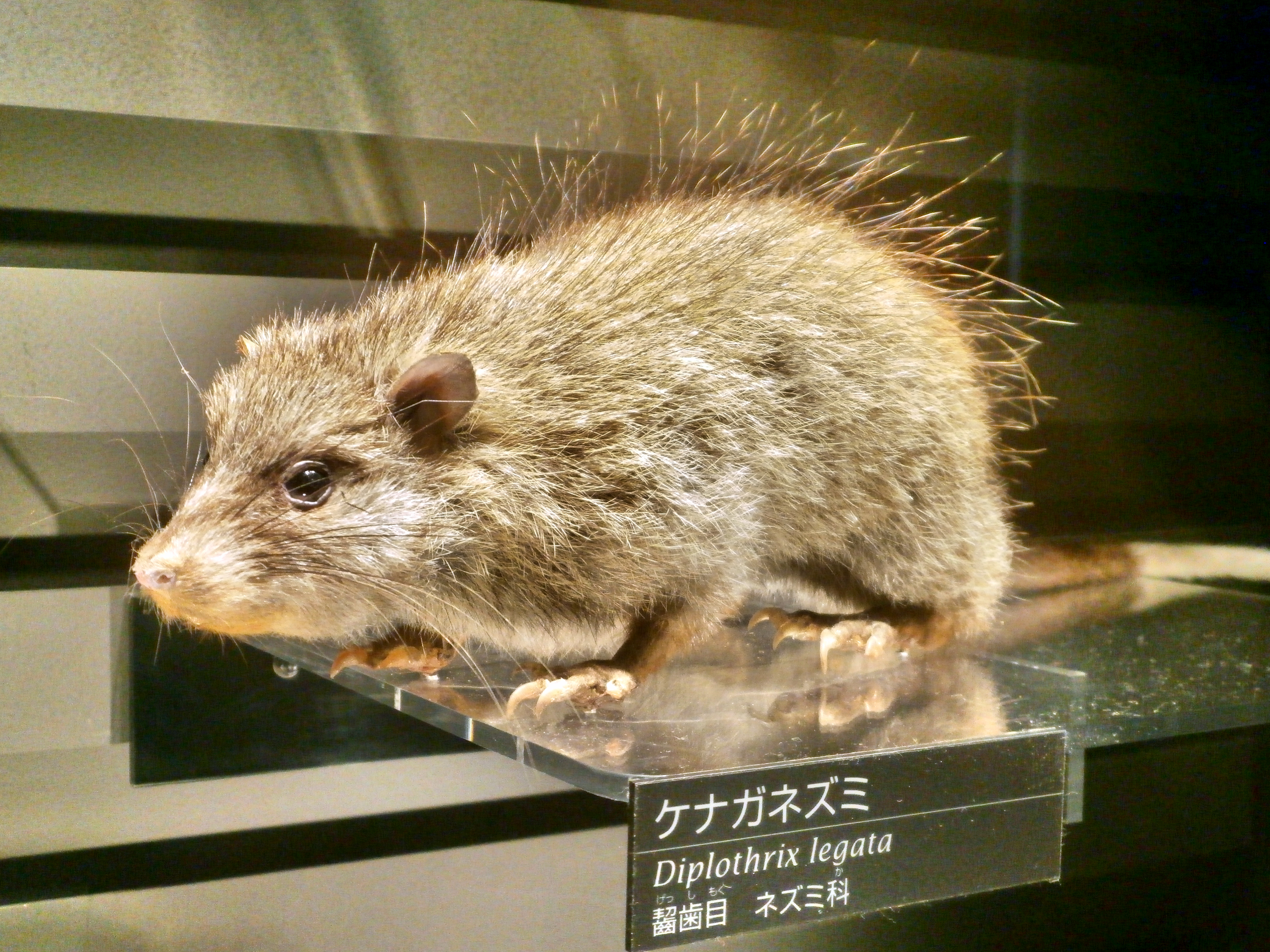 Stuffed specimen of Ryukyu long-furred rat (Diplothrix legata). Exhibit in the National Museum of Nature and Science, Tokyo, Japan.